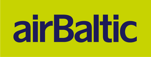 airBaltic airlines logo as of 2016